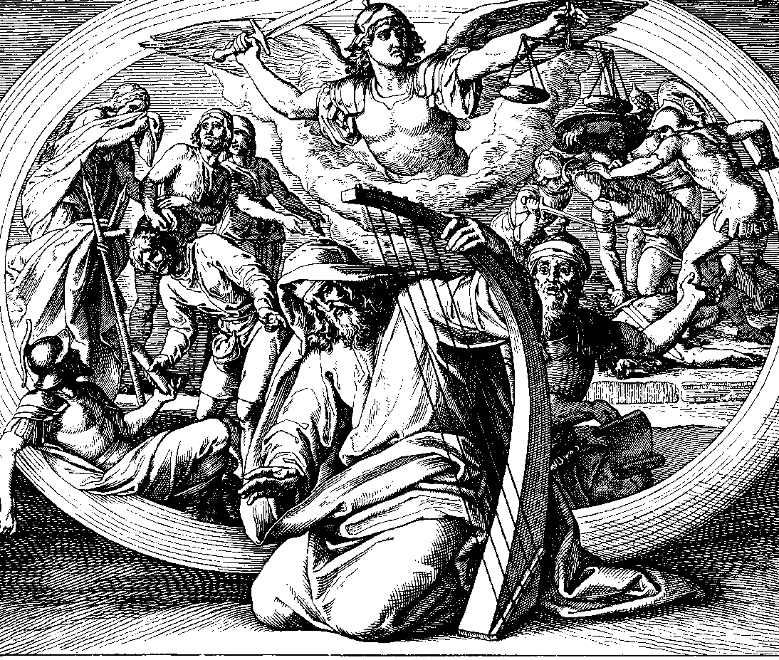 Woodcut for "Die Bibel in Bildern", 1860.